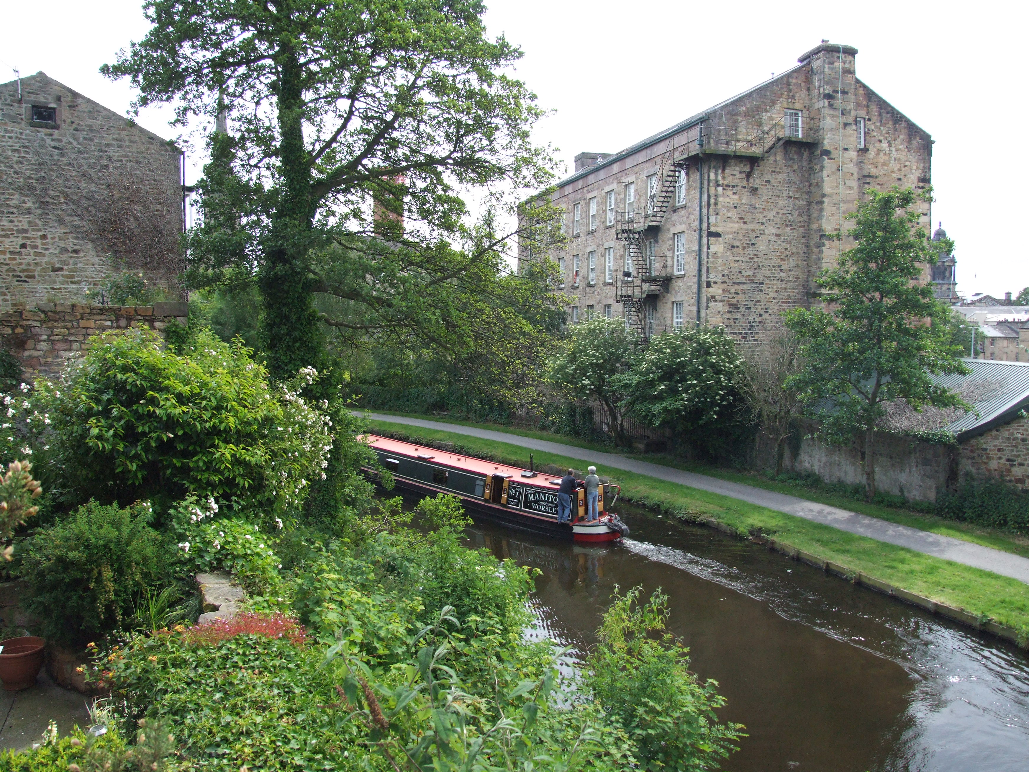 Lancaster Canal in Lancaster. Former Mills